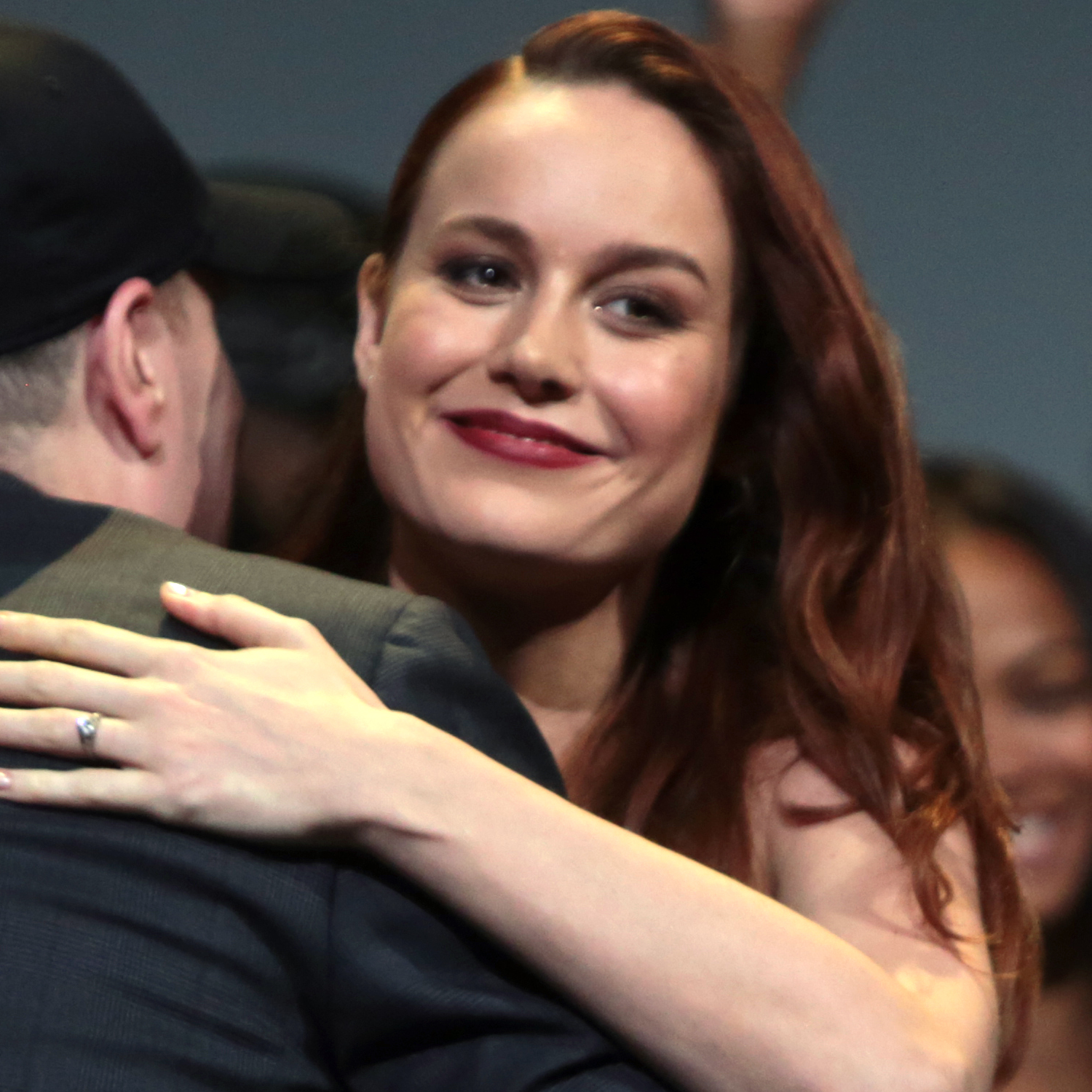 Brie Larson, along with Marvel Studios panelists, speaking at the 2016 San Diego Comic Con International, for "Captain Marvel", at the San Diego Convention Center in San Diego, California.